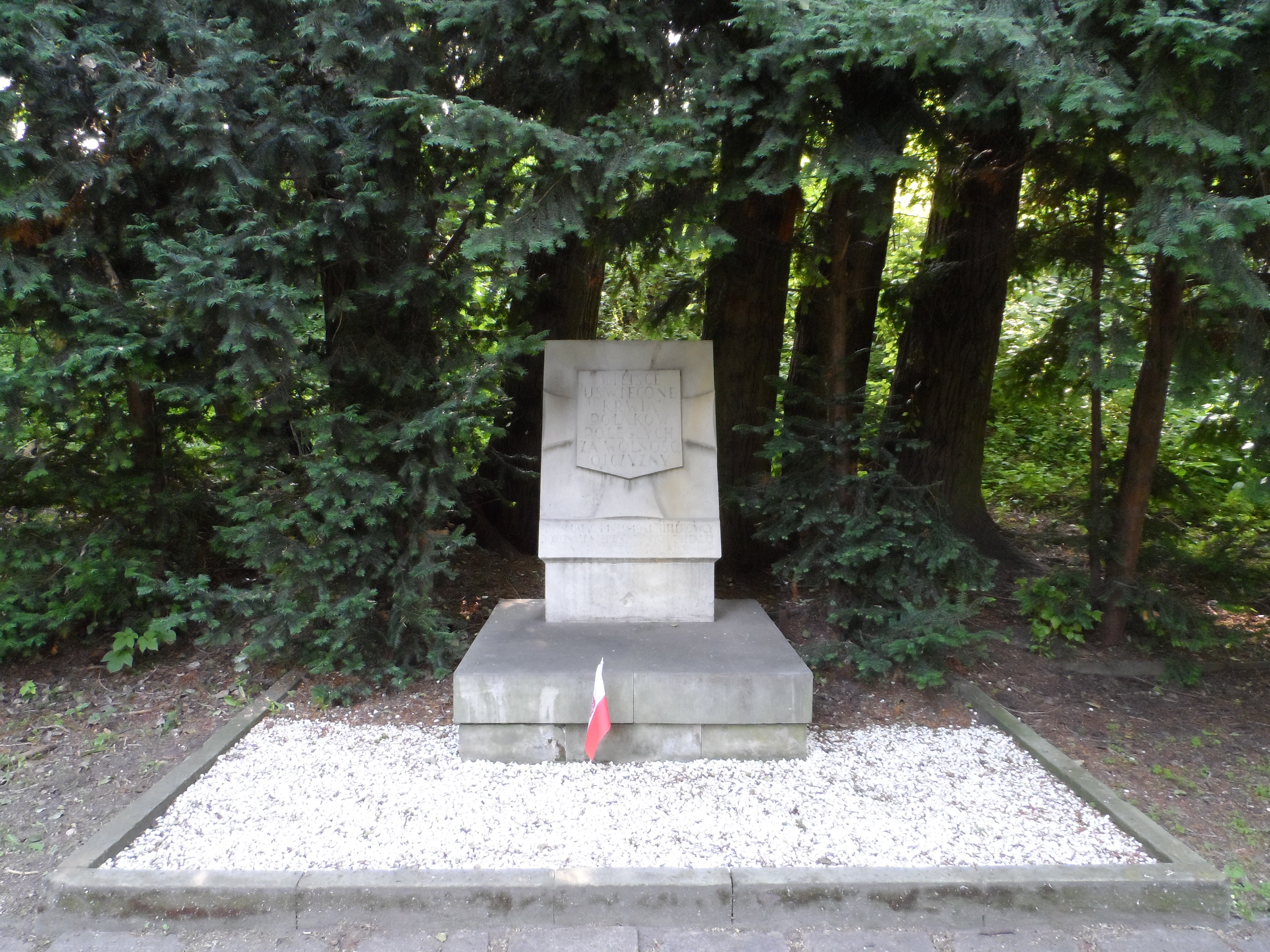 Plaque at Rydz-Śmigły Park in Warsaw (Sejm's Garden) commemorating hundreds of Polish patriots murdered in this place by German occupants between October 1939 and April 1940.